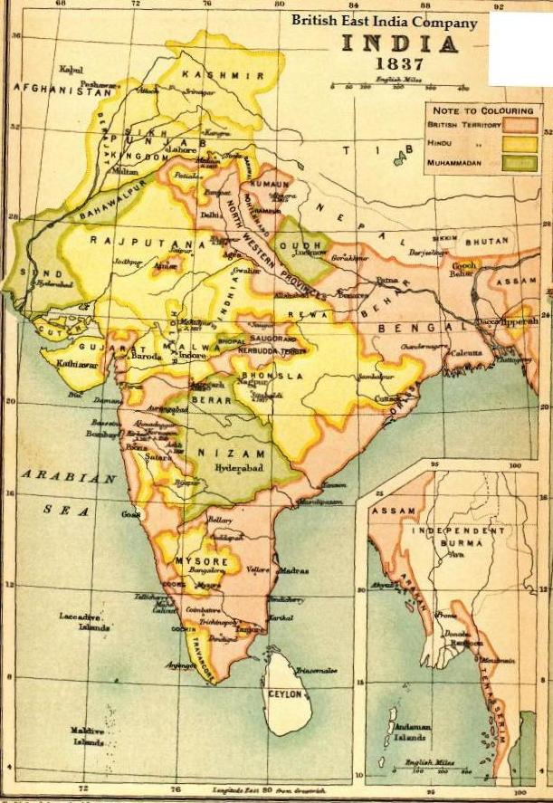 Map of India under the British East India Company, 1837.